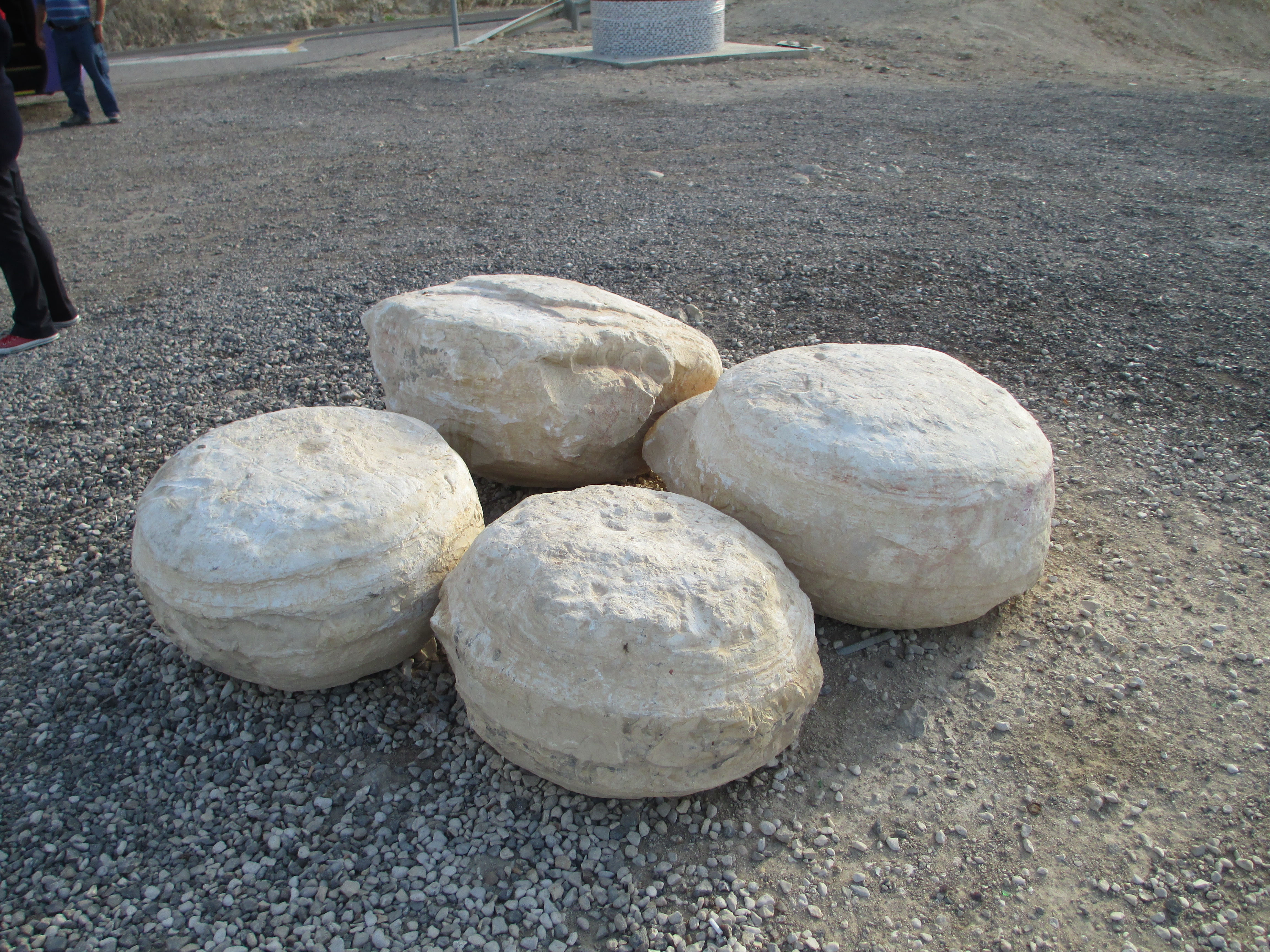 Bulbuses in the Negev